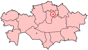 Map of Kazakhstan showing Nur-Sultan city. Made by User:Golbez based on a PD United Nations map; its borders are different from the available CIA maps, but the UN map is several years newer.